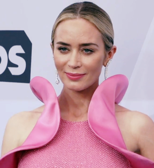 Emily Blunt at 2019 Screen Actor Guild Awards Red Carpet